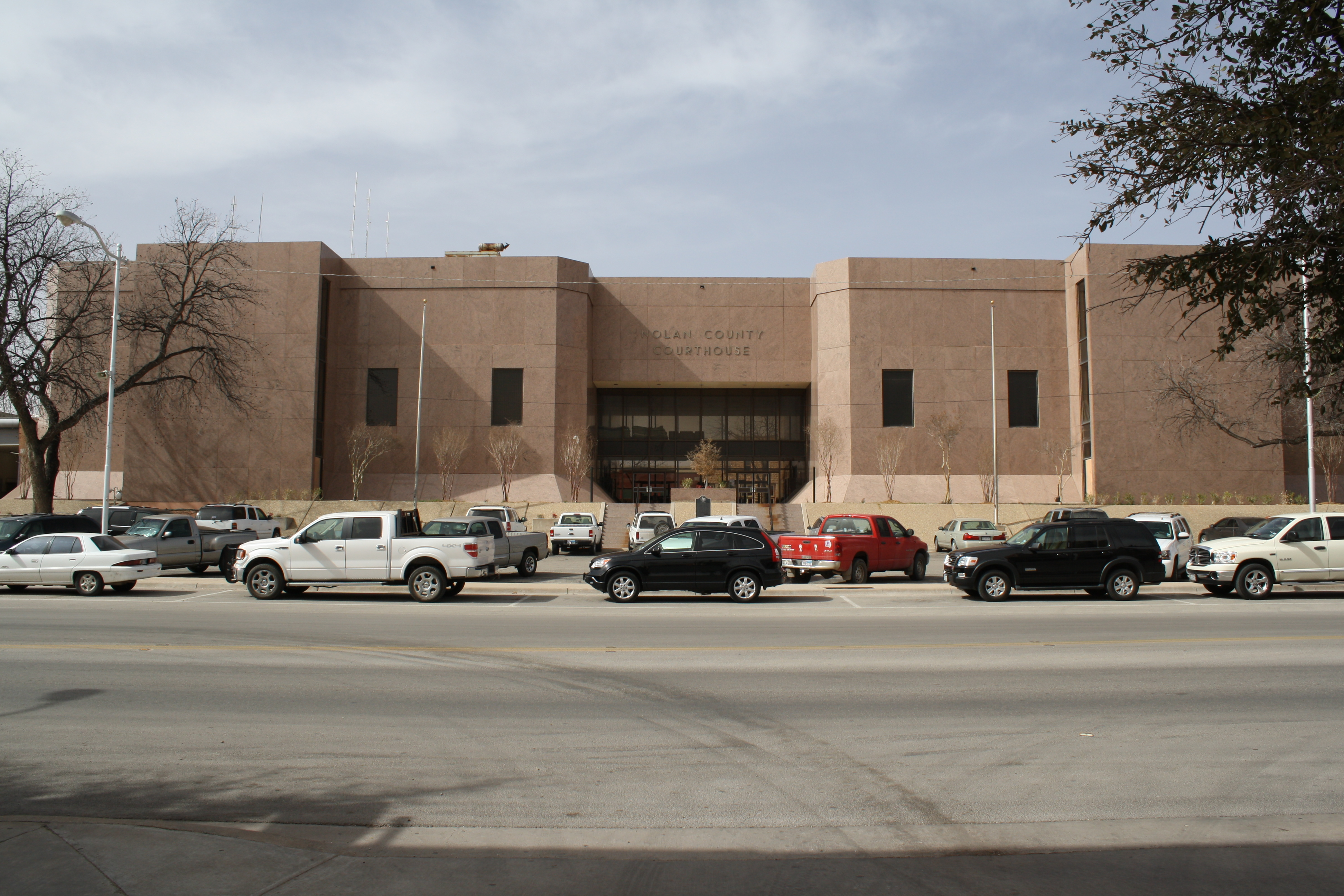 Courthouse, Nolan County, Sweetwater, TX